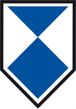 Distinctive marking of cultural property